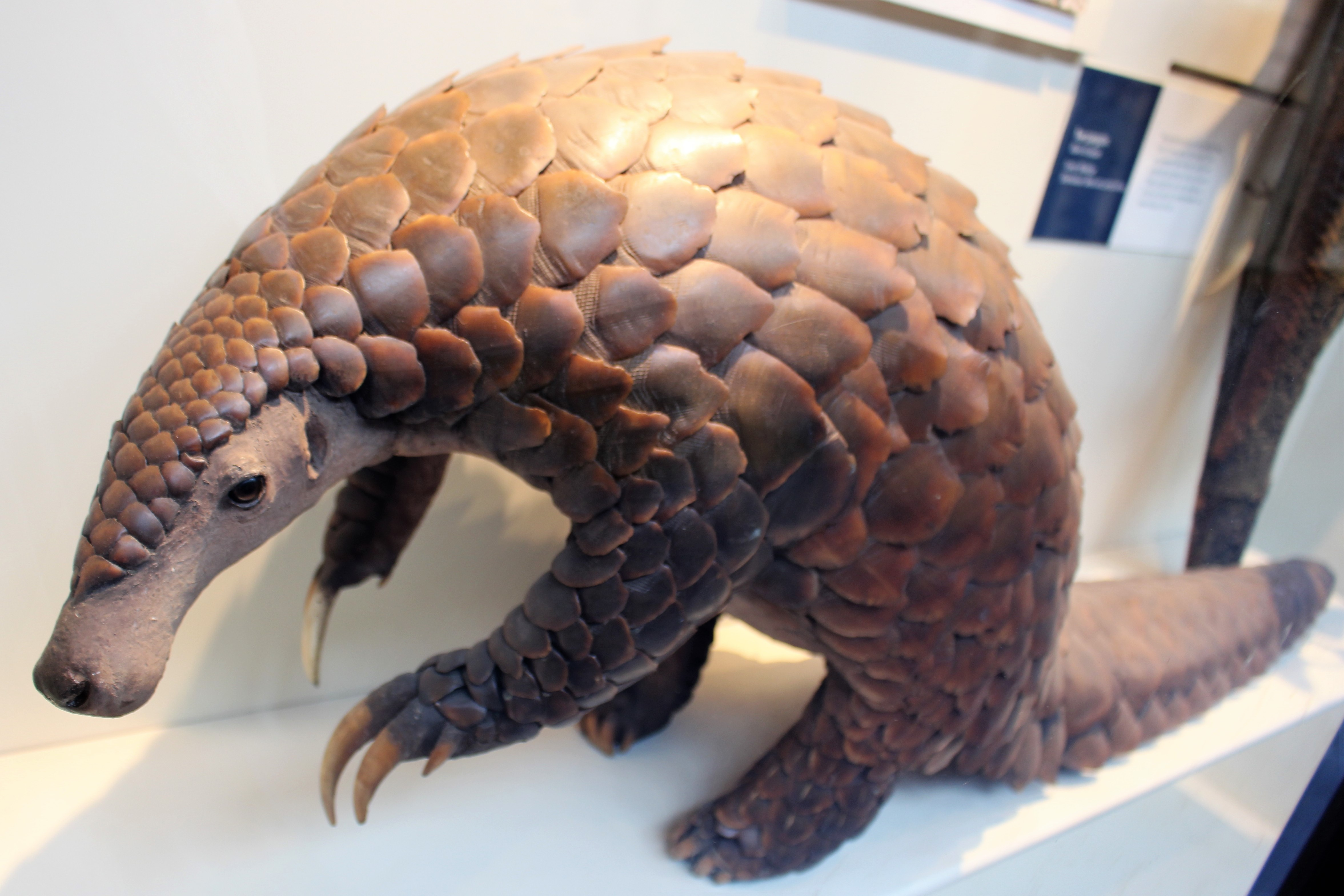 Taxidermied giant pangolin (Smutsia gigantea) at the Natural History Museum in London, England.